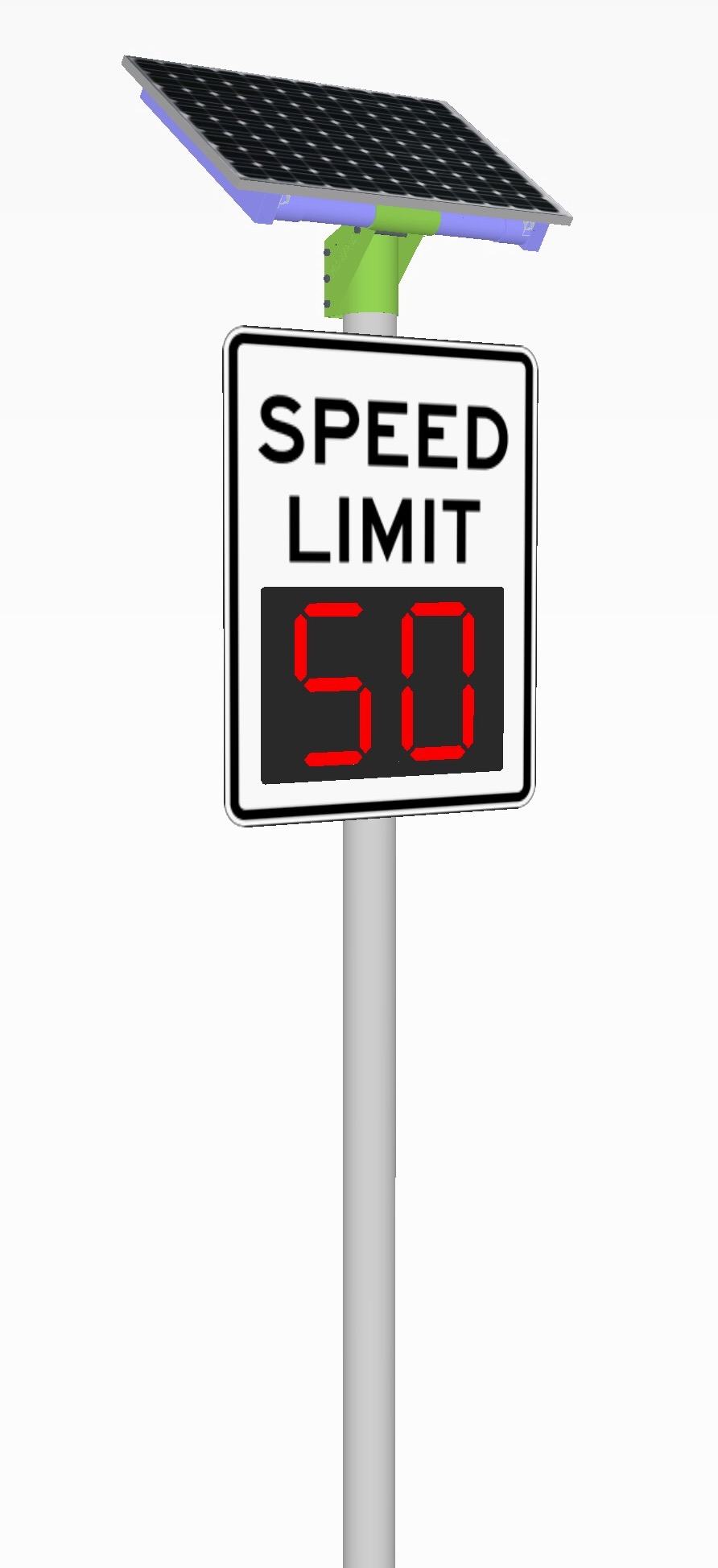 I hereby affirm that I, (kcida10) the creator of ( digital speed limit sign ) is my work. I agree to publish that work under the free license This file is made available under the Creative Commons CC0 1.0 Universal Public Domain Dedication. The person who associated a work with this deed has dedicated the work to the public domain by waiving all of their rights to the work worldwide under copyright law, including all related and neighboring rights, to the extent allowed by law. You can copy, modify, distribute and perform the work, even for commercial purposes, all without asking permission. I acknowledge that by doing so I grant anyone the right to use the work in a commercial product or otherwise, and to modify it according to their needs, I am aware that this agreement is not limited to Wikipedia or related sites. Modifications others make to the work will not be claimed to have been made by me. I acknowledge that I cannot withdraw this agreement, and that the content may or may not be kept permanently on a Wikimedia project. Kcida10 La Crosse, WI 54603. I am the designer and creator of the 3D model ( digital speed limit sign ) on Sketchup Make's open source repository. 4Dec15